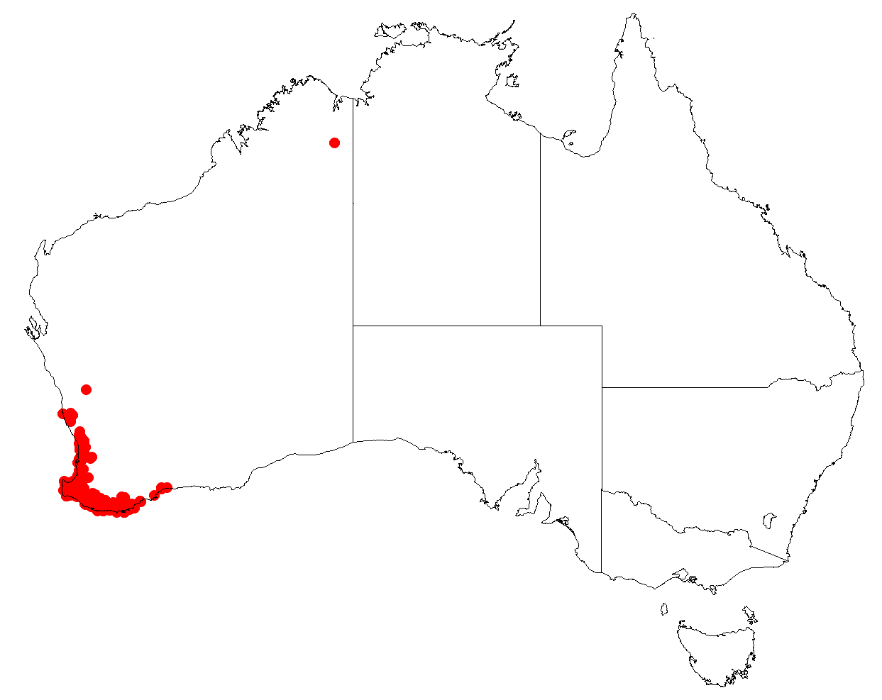 Dasypogon bromeliifolius occurrence data downloaded from Australasian Virtual Herbarium, June 25, 2018